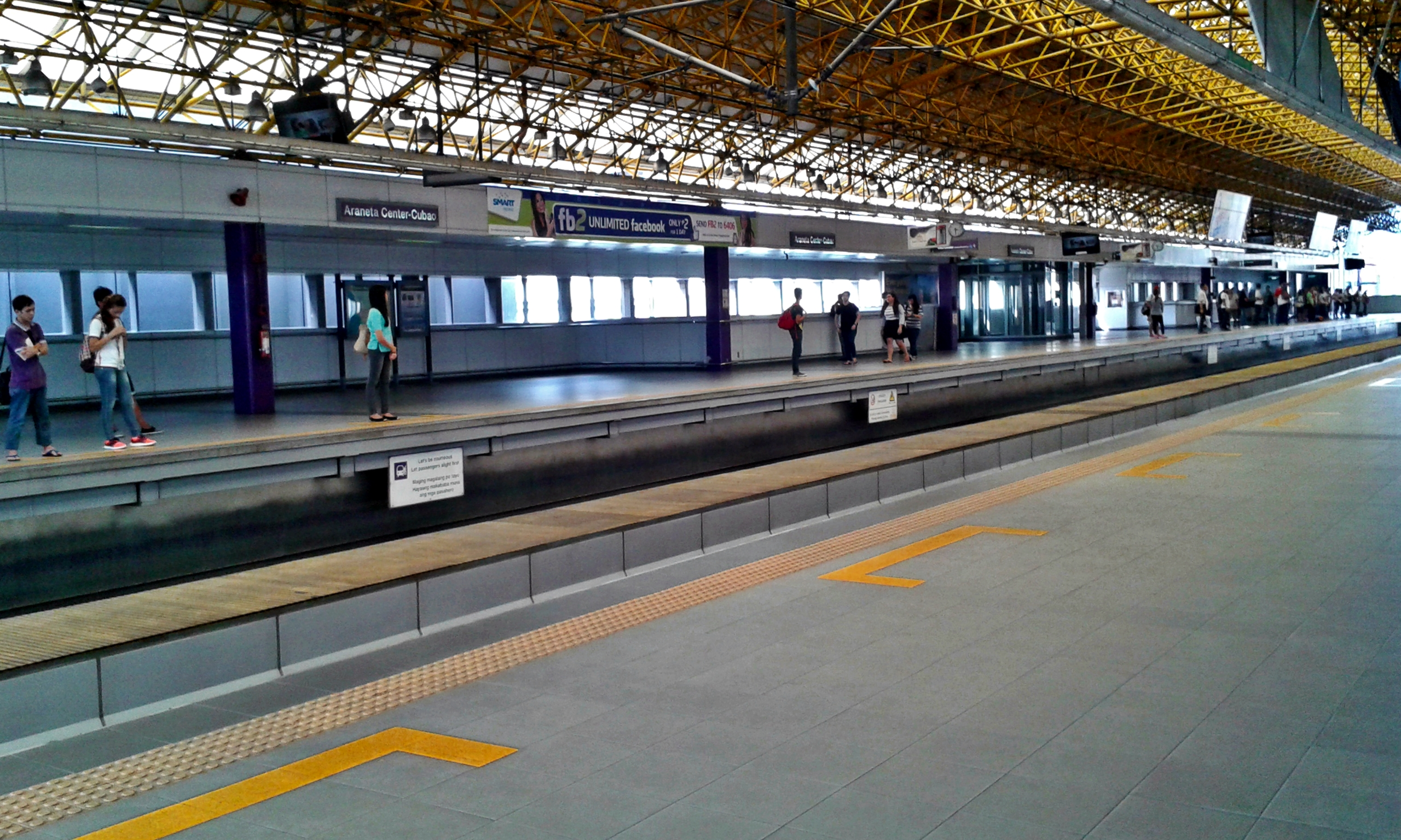 MRT-2 Araneta Center-Cubao Station Platform Area.